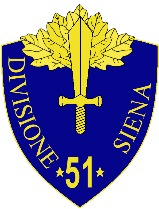 51a Divisione Fanteria Siena insignia, Regio Esercito, Italy, WWII